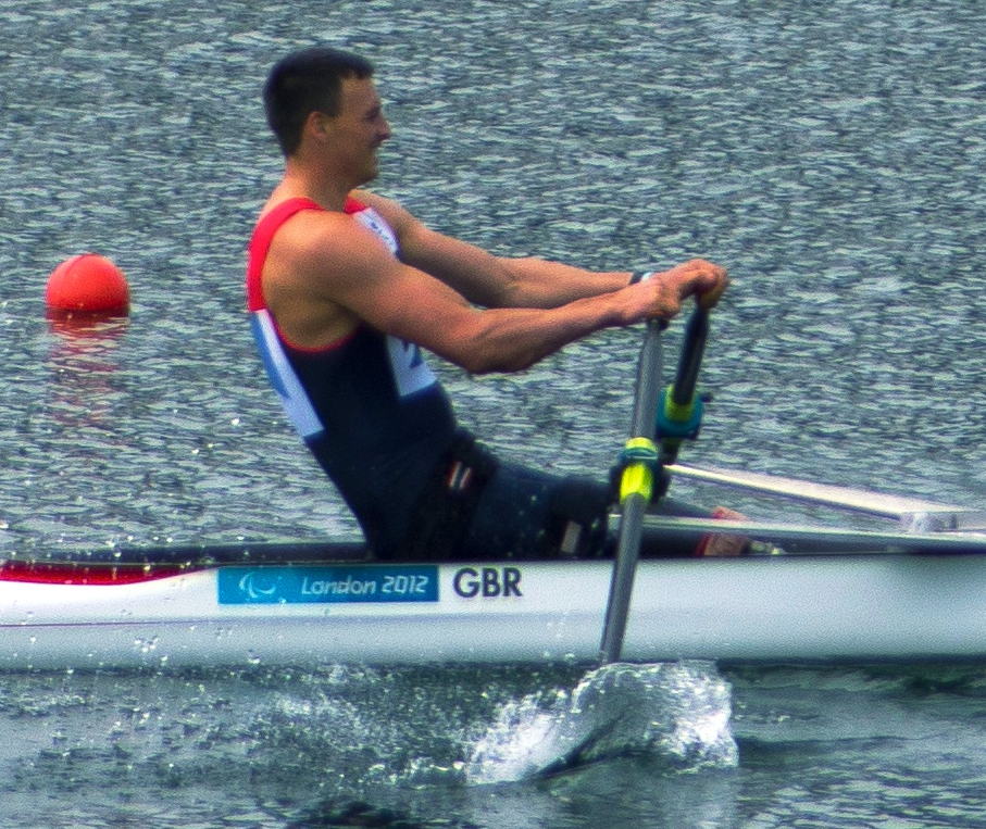 Nick Beighton, Mixed Double Sculls TAMix2